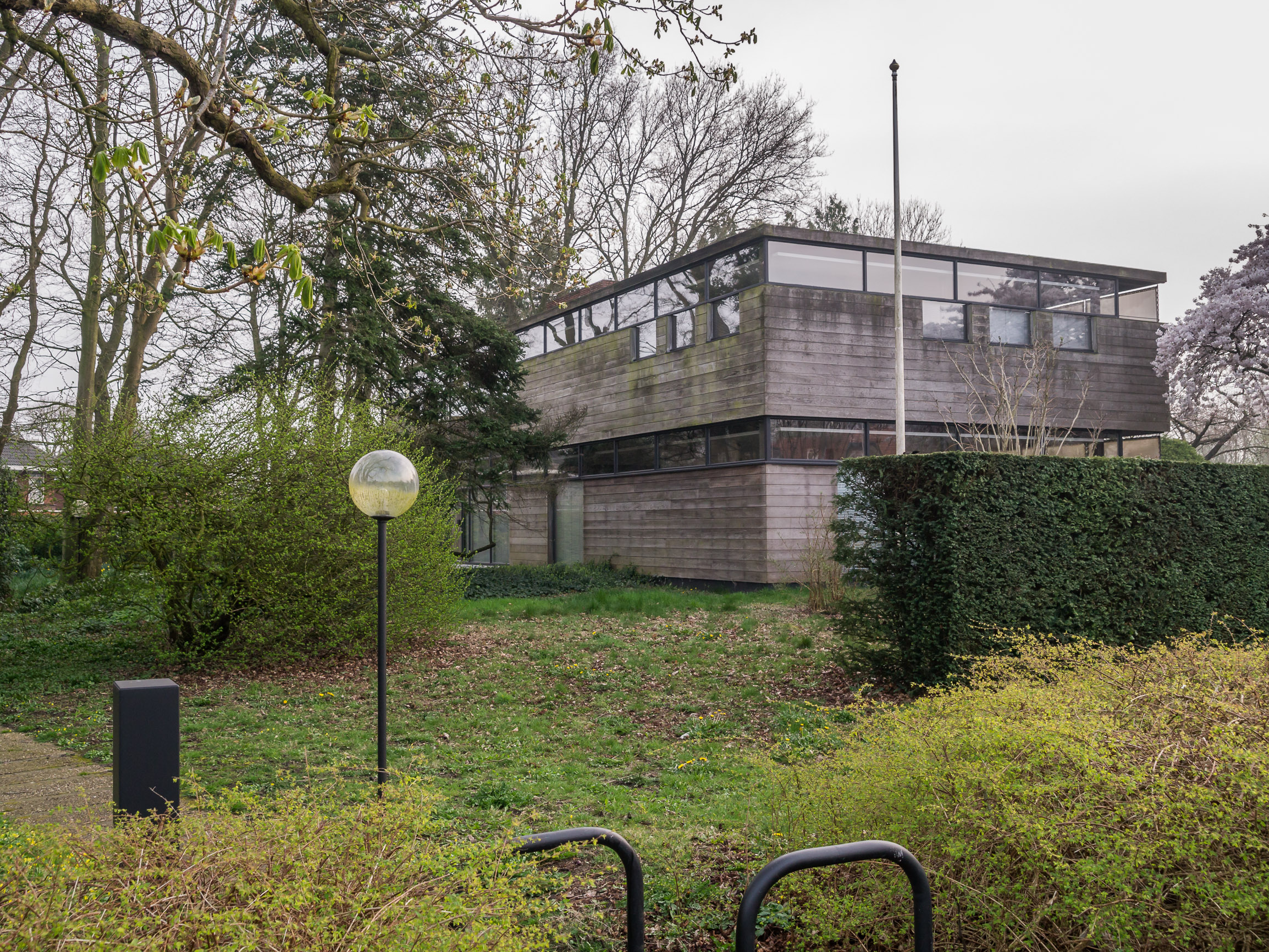 Woonhuis architect Abe Bonnema aan de Rijksstraatweg 24 in Hardegarijp.